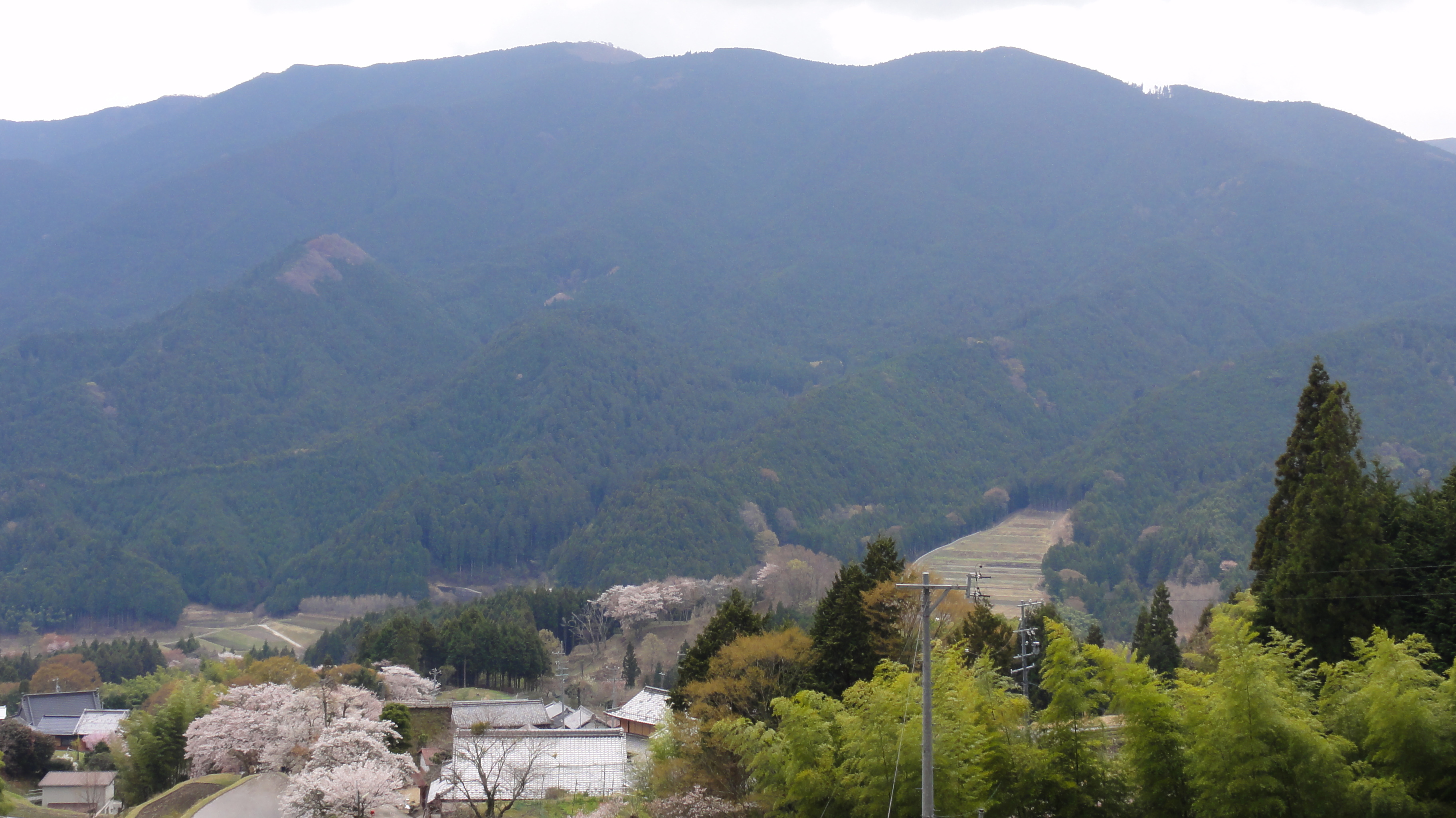 Mount Gakunodo seen from the NbW, in the border between Mie and Nara Prefectures, Japan